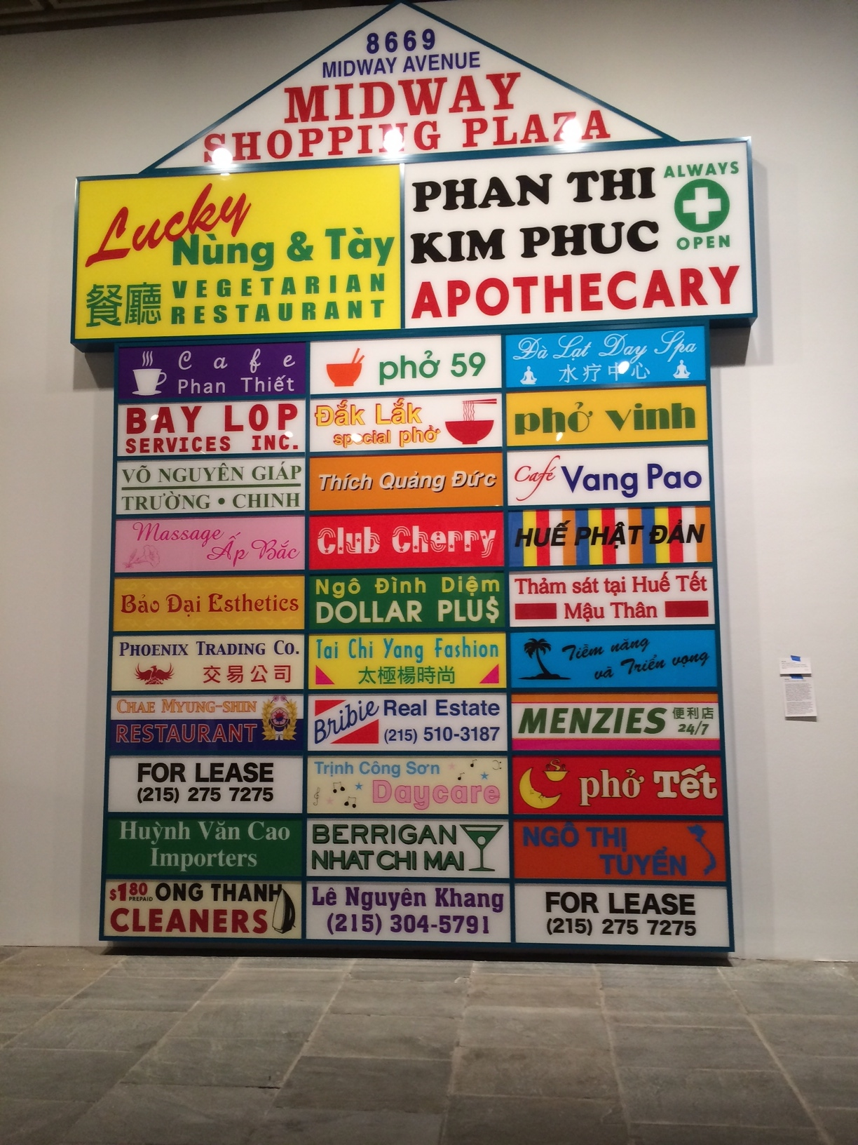 Midway Shopping Plaza 2014